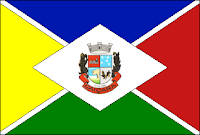 Flag of the city of Caiçara, Rio Grande do Sul, Brazil.